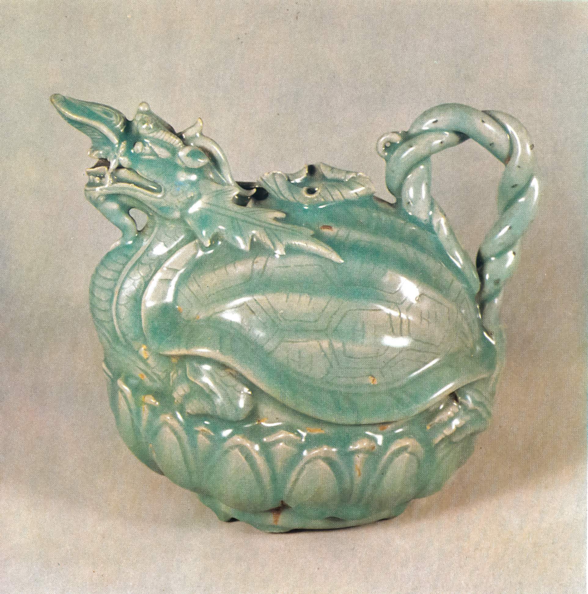 Celadon Ewer in the Shape of Turtle-dragon